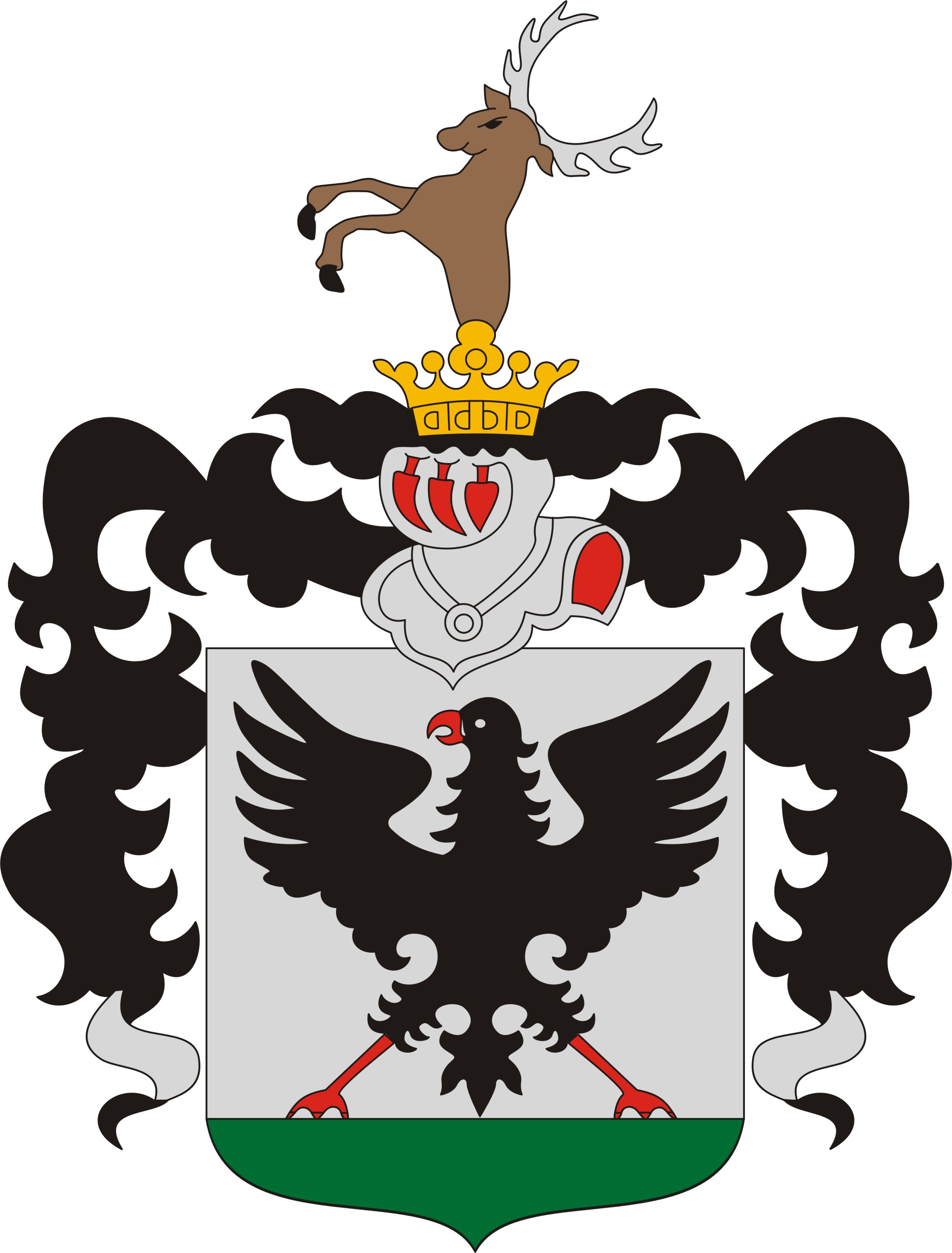 Coat of arms of Biharnagybajom, Hungary